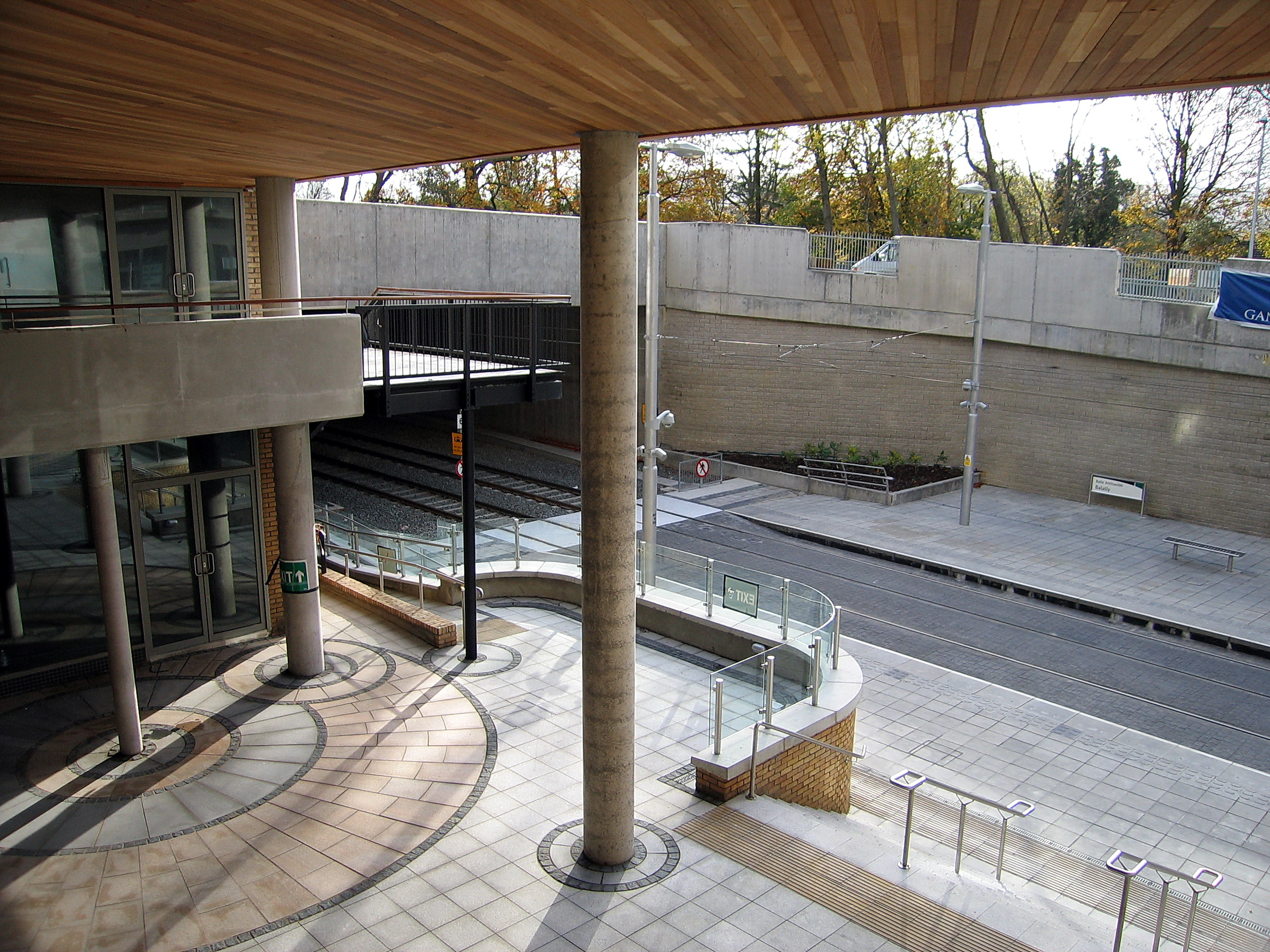 Balally Luas halt in Dundrum, Dublin.